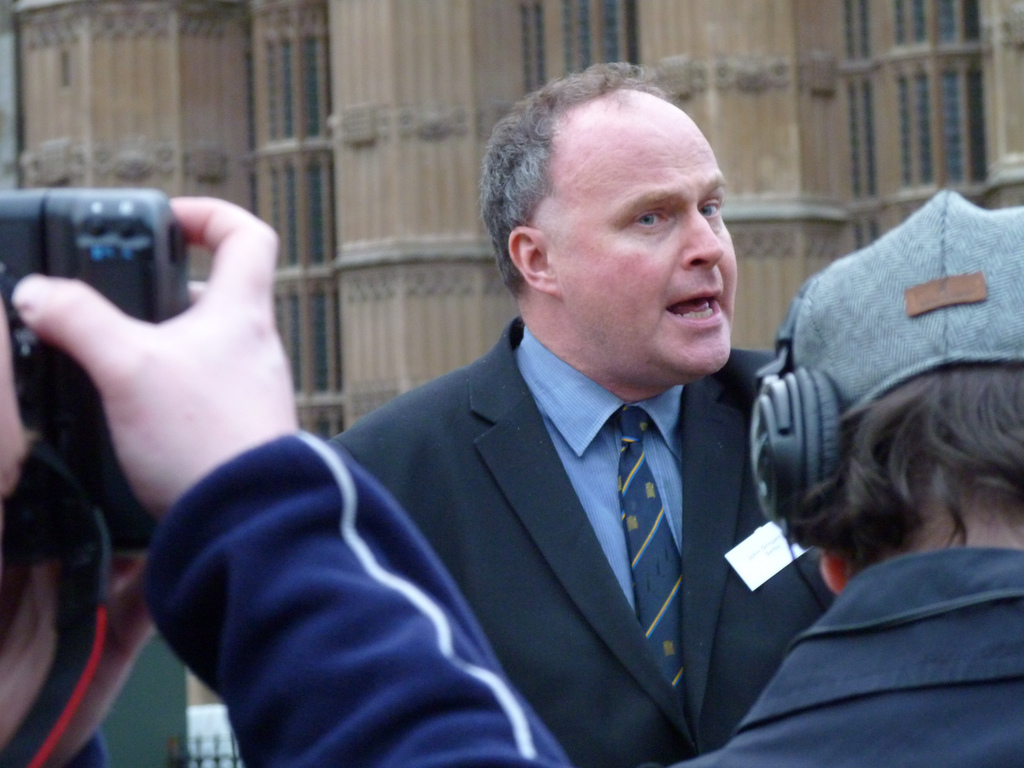 John Grogan at a digital economy bill protest in 2010.